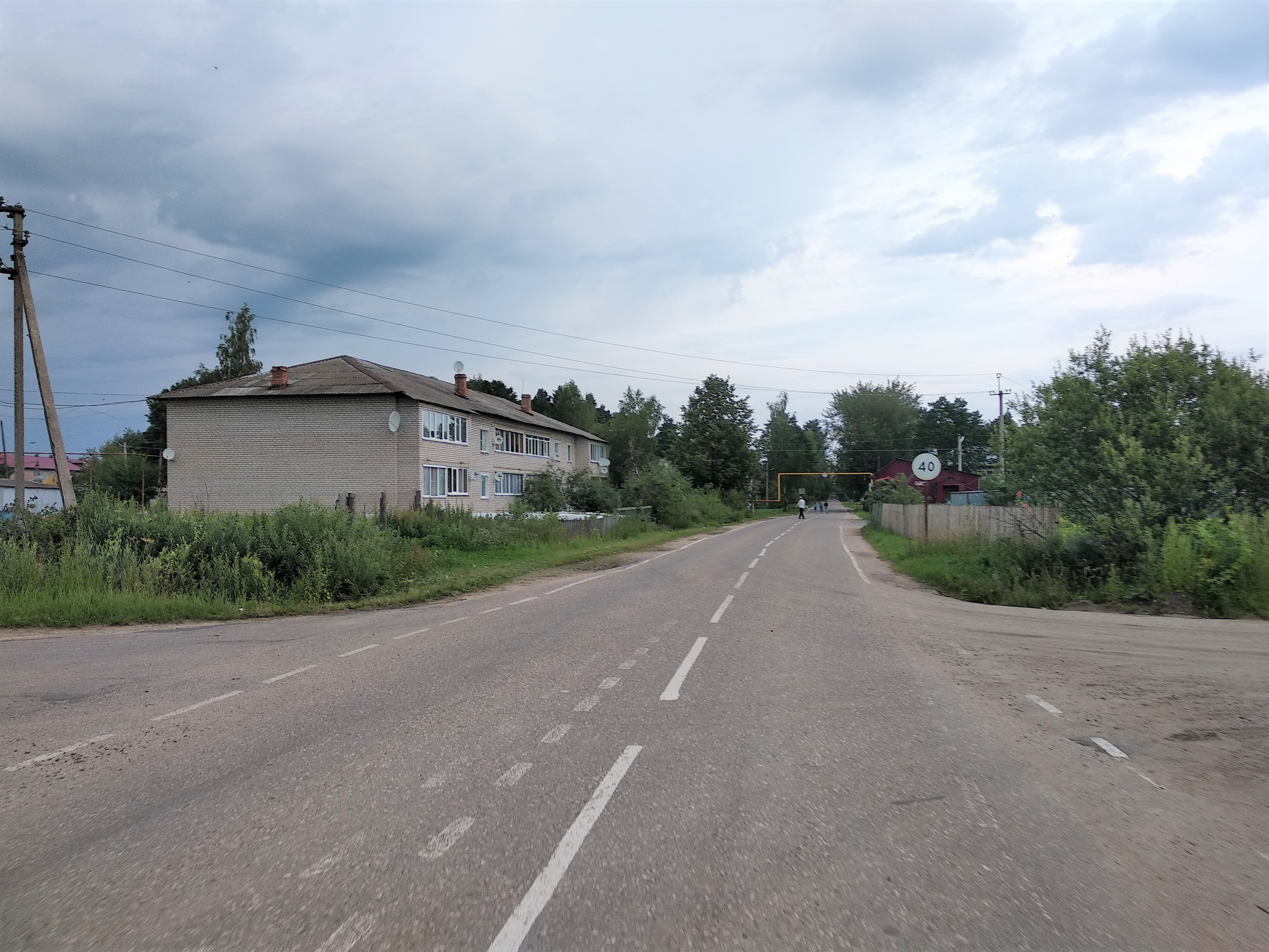 Melioratorov Street crossing the Frunzenskaya Street in Ishnya urban-type settlement